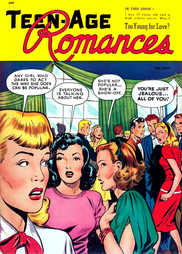 This depicts the earliest known usage of the phrase "Teen-Age" (capitalized) in a notable publication. It is issue 1 of Teen-Age Romances series which ran for 45 issues from 1949-1952.